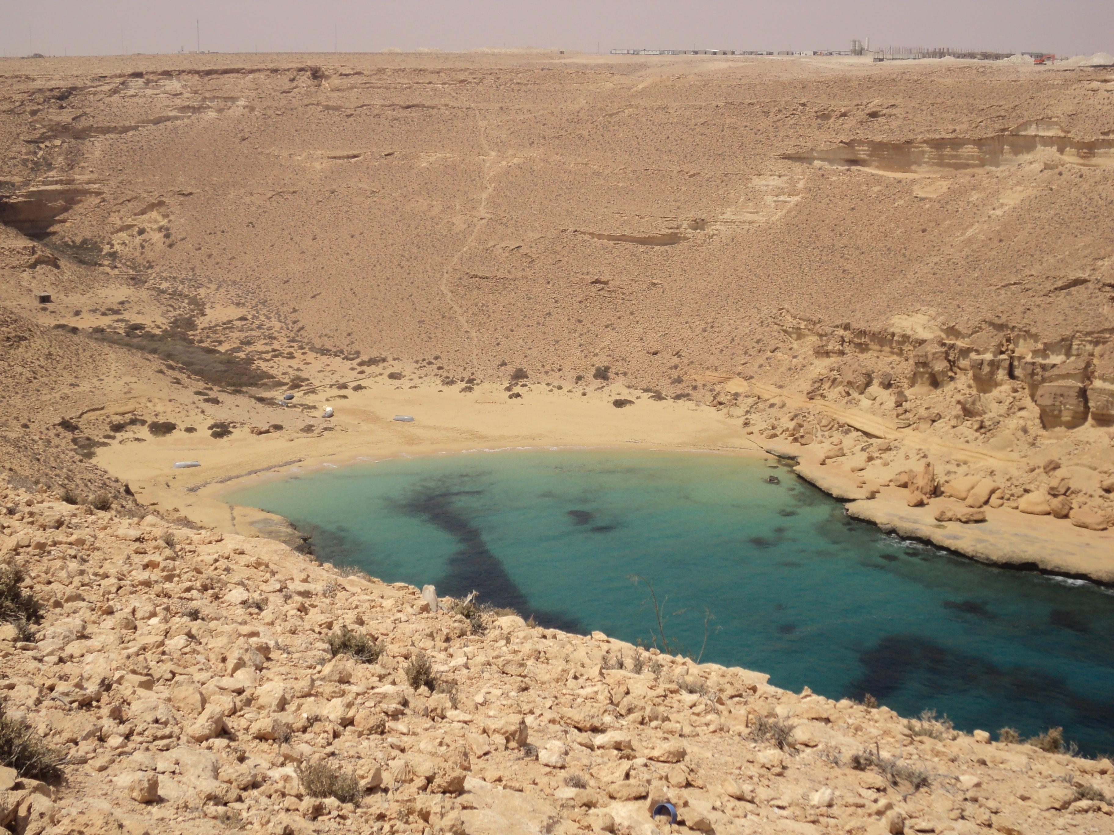 Rocky coast of the Libyan village of Bardia.